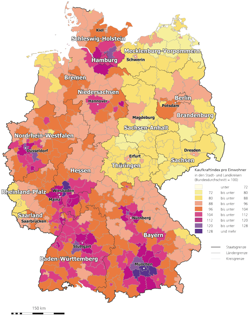 Purchasing power is determined according to consumers' place of residence and is therefore an indicator of the consumption potential of the population living in a particular area.